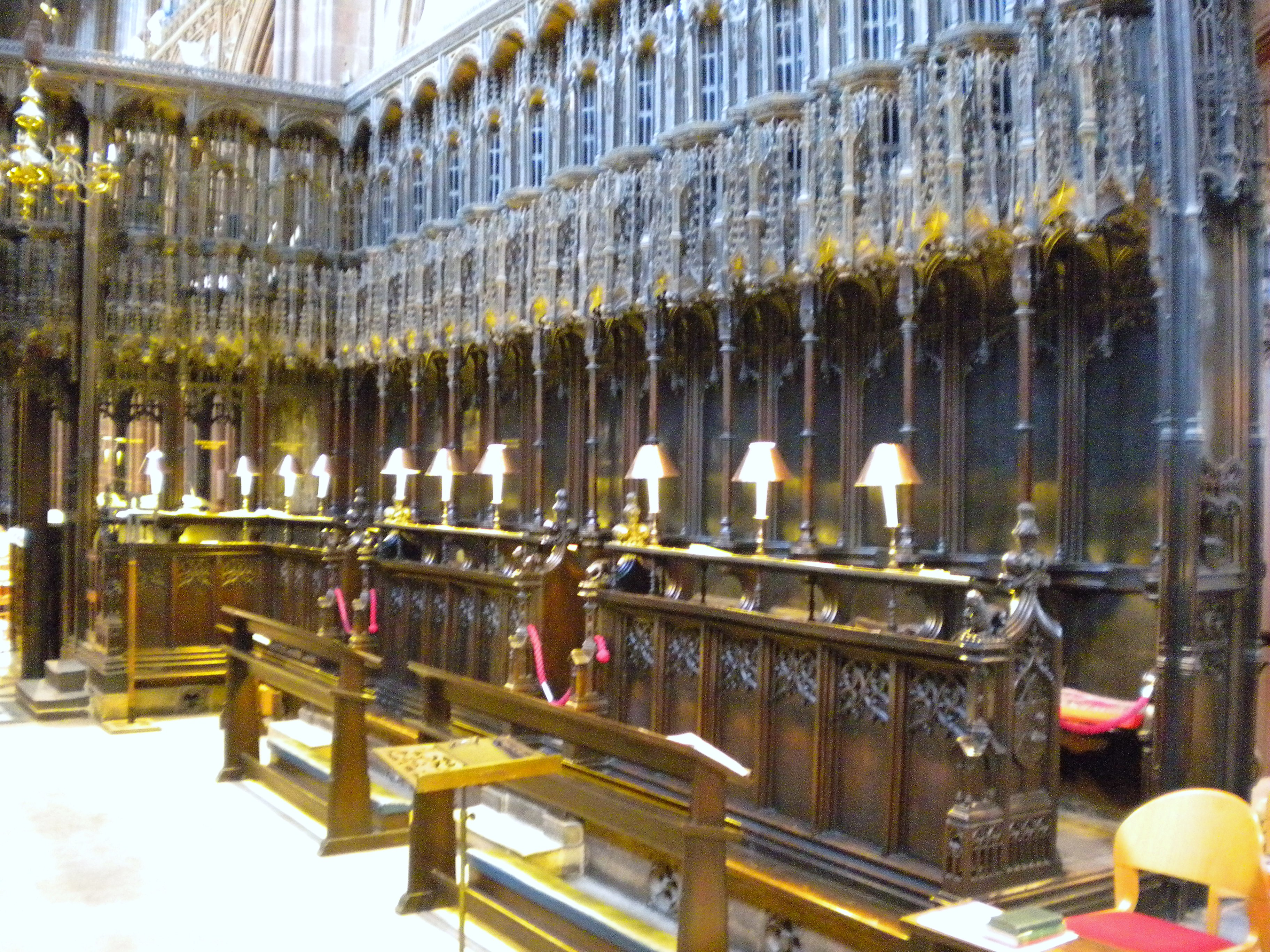 Choir of Manchester Cathedral, Manchester, England.